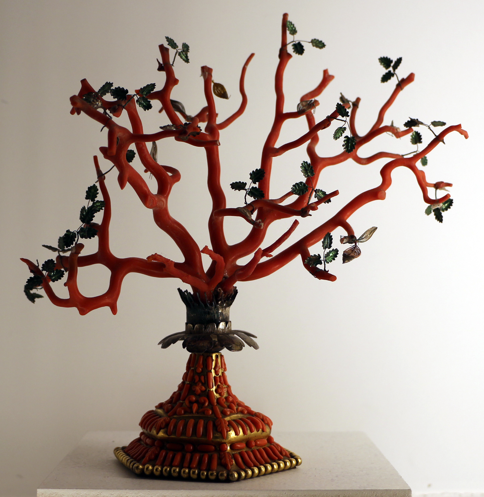 Courtesy of Altomani & Sons (n. 177)